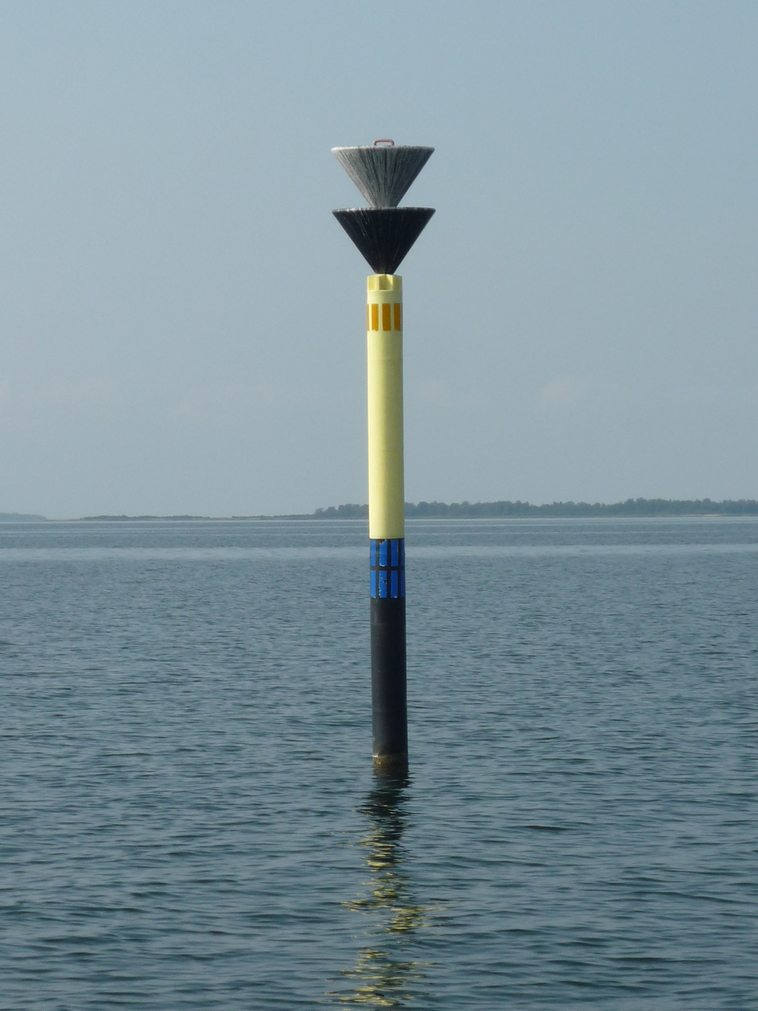 Viinakari south spar buoy. View from southeast. Ahelaid (a small island) in the background. Western part of Estonia.